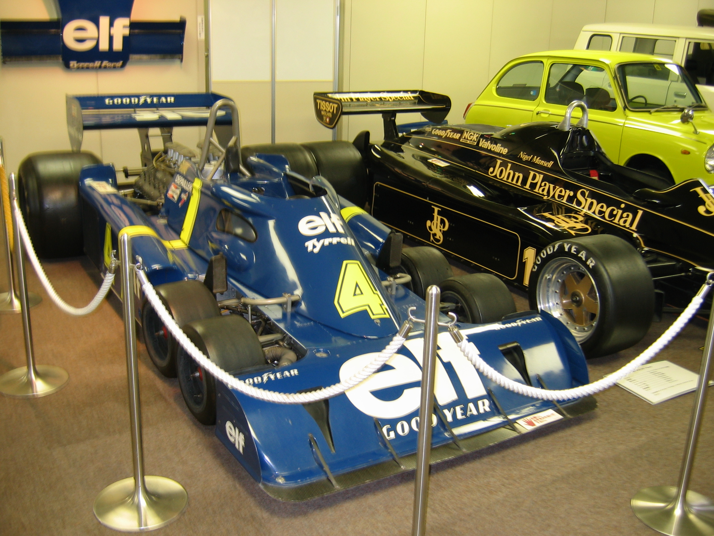 Photo of Tyrrell-Ford P34 race car at Tamiya's headquarters in Shizuoka City Japan. Tamiya purchased this car to study it for producing scale models likeness of this car.